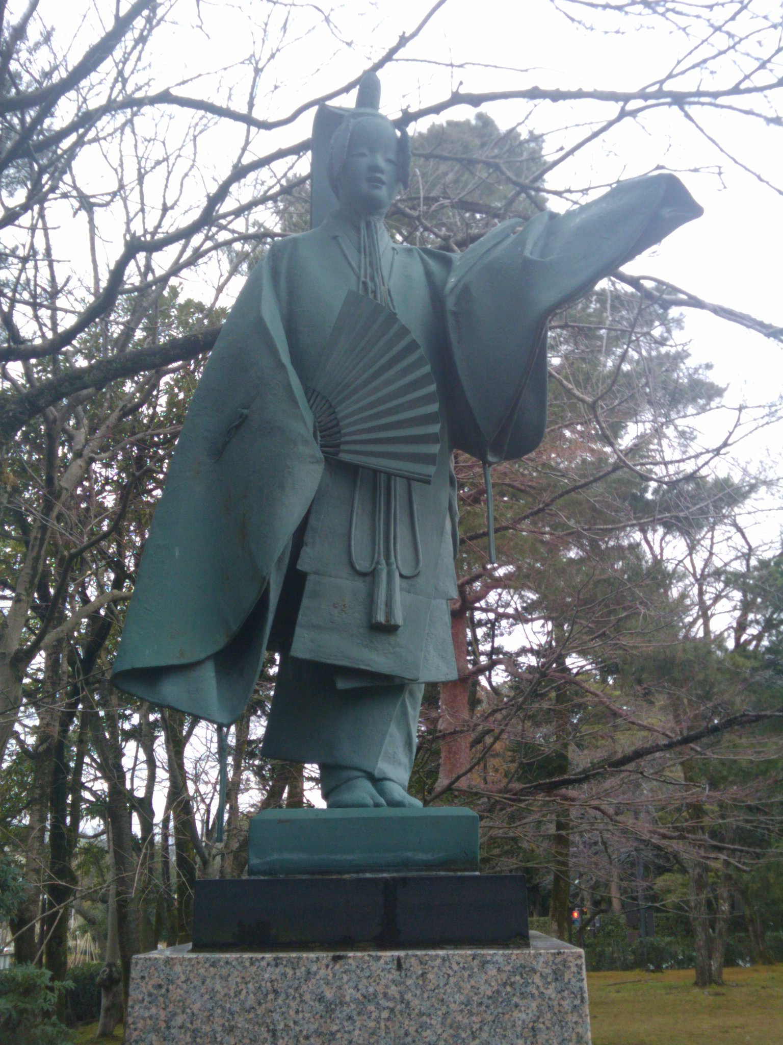 The Statue of Noh Kakitsubata, Kanazawa, Ishikawa, Japan